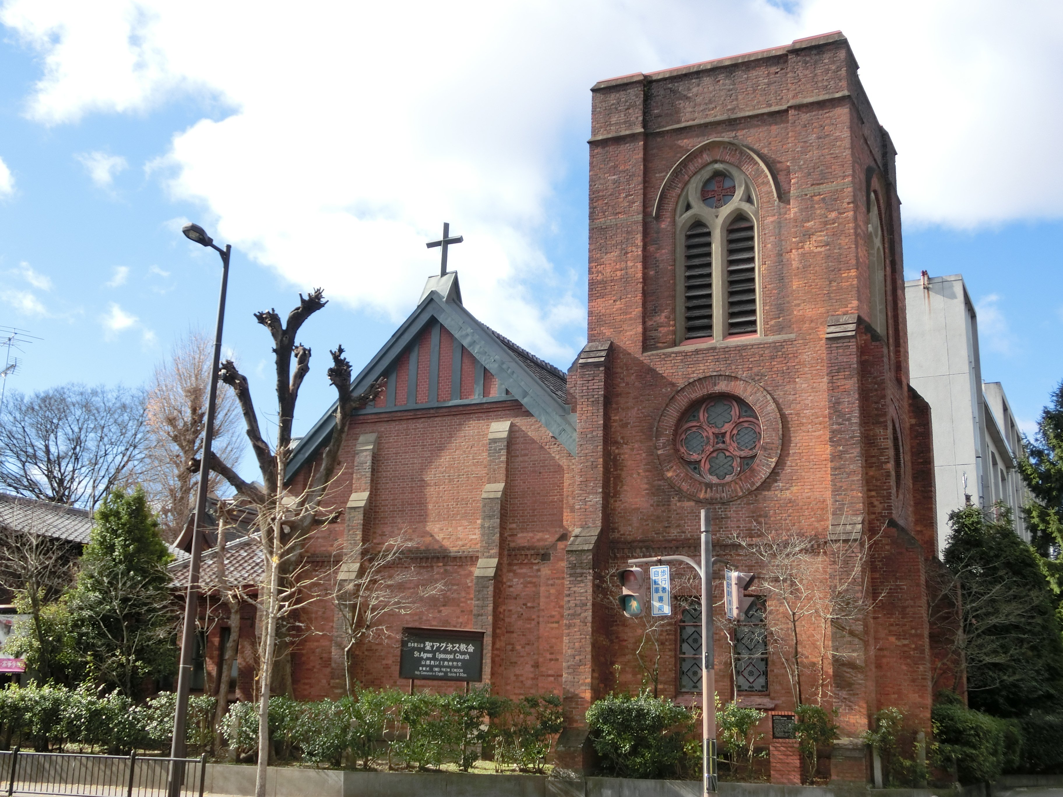 St. Agnes' Episcopal Church (Kyoto)